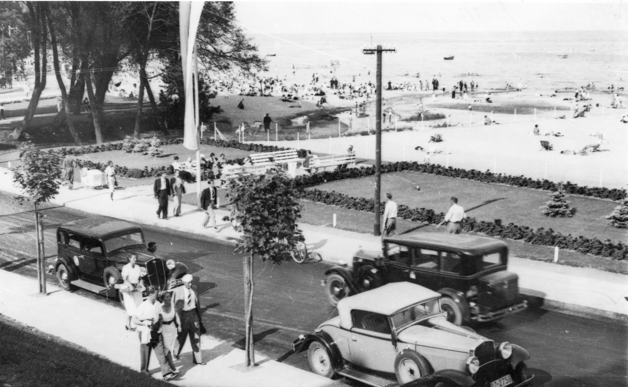 The beach in Gdynia-Orłowo in Poland.